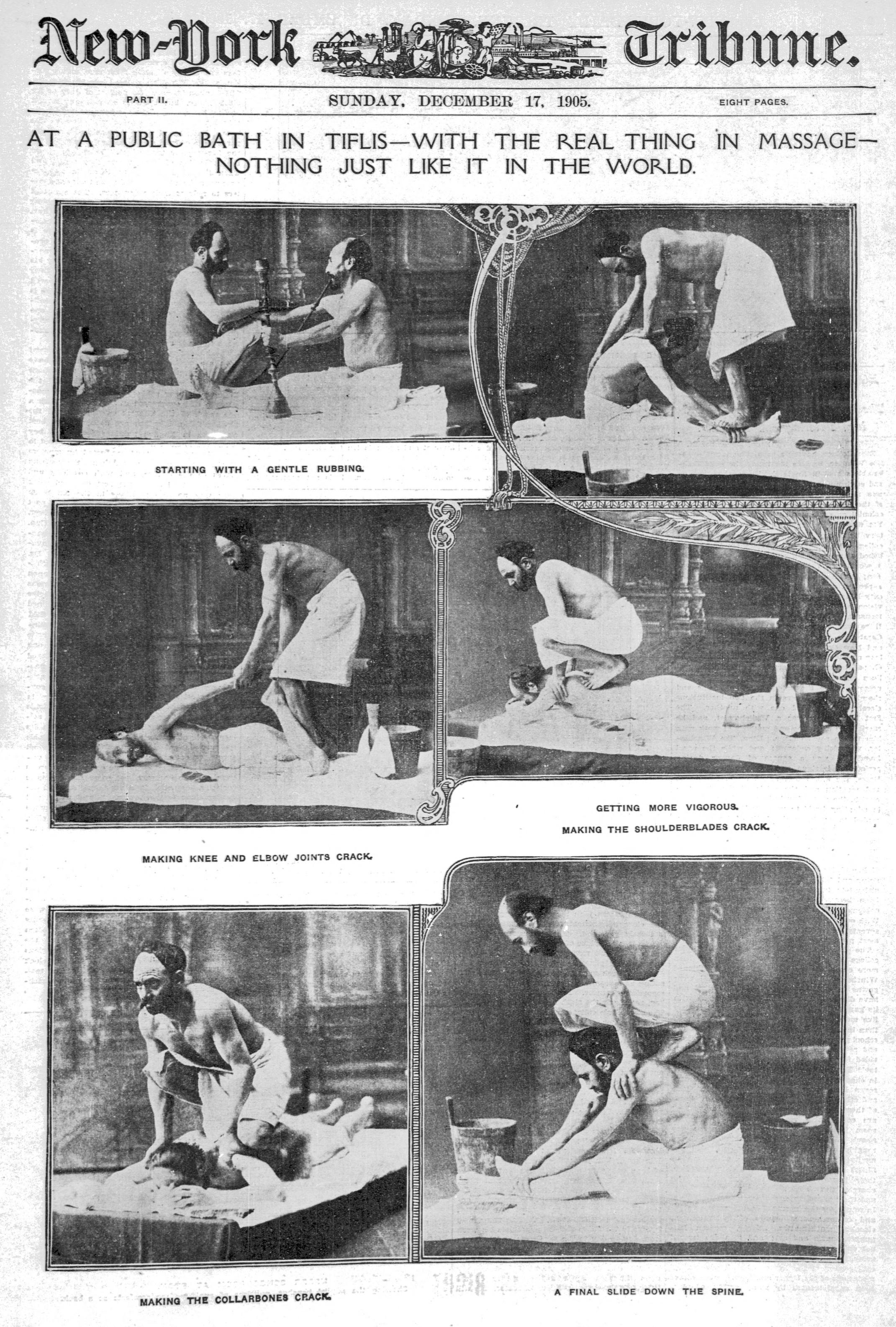 At a public bath in Tiflis-with the real thing in massage-nothing just like it in the world New-York tribune. (New York [N.Y.]) 1866-1924 December 17, 1905, Image 17 Notes: Cover, illustrated supplement. Format: Newspaper page, from microfilm Rights Info: No known restrictions on reproduction. Repository: Library of Congress, Serial and Government Publications Division, Washington, D.C. 20540 USA. Part Of: Chronicling America (Library of Congress) (DLC) - Persistent URL: More information about the Chronicling America Web site is available at